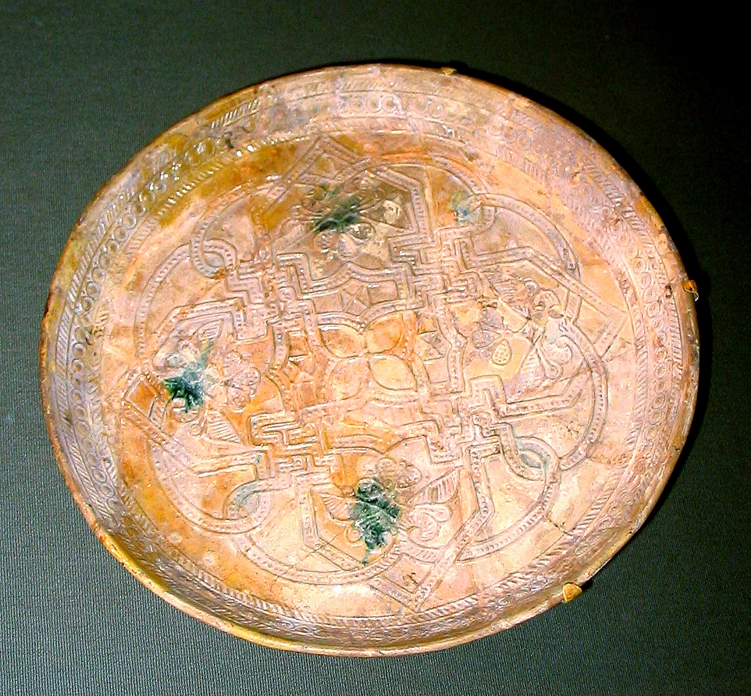 Abbasid art, provenance : Irak